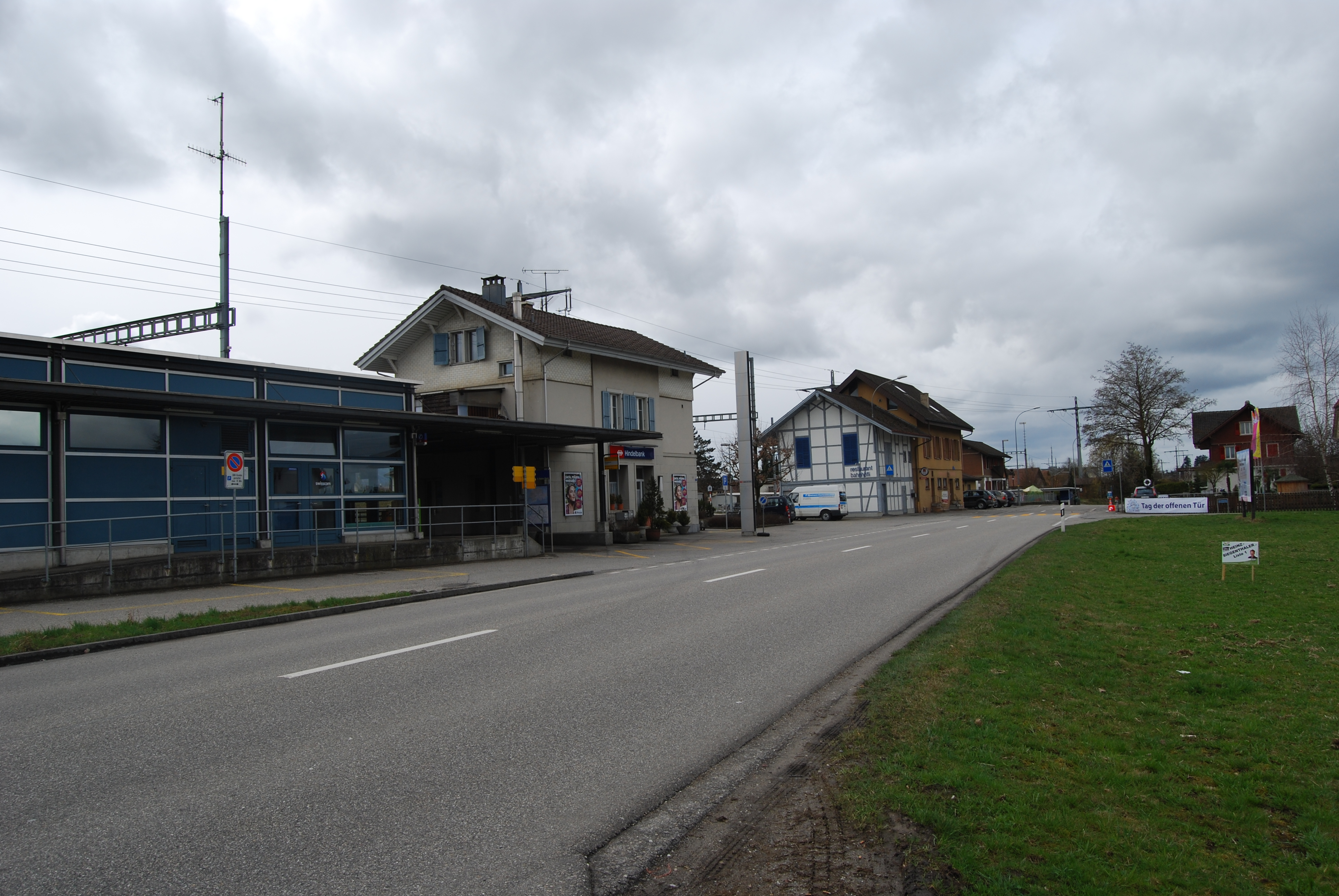 Train station of Hindelbank, canton of Bern, SwitzerlandEsperanto: Stacidomo de Hindelbank, Kantono Berno, Svislando